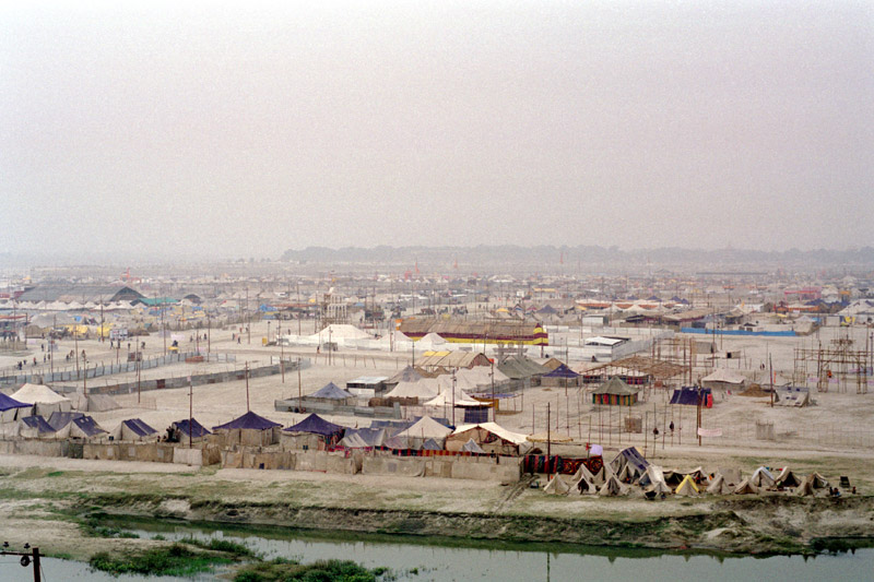 Kumbhamela site in Allahabad, 2001